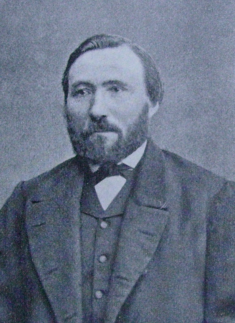 Picture of Nils Petersson i Runtorp, Swedish politician